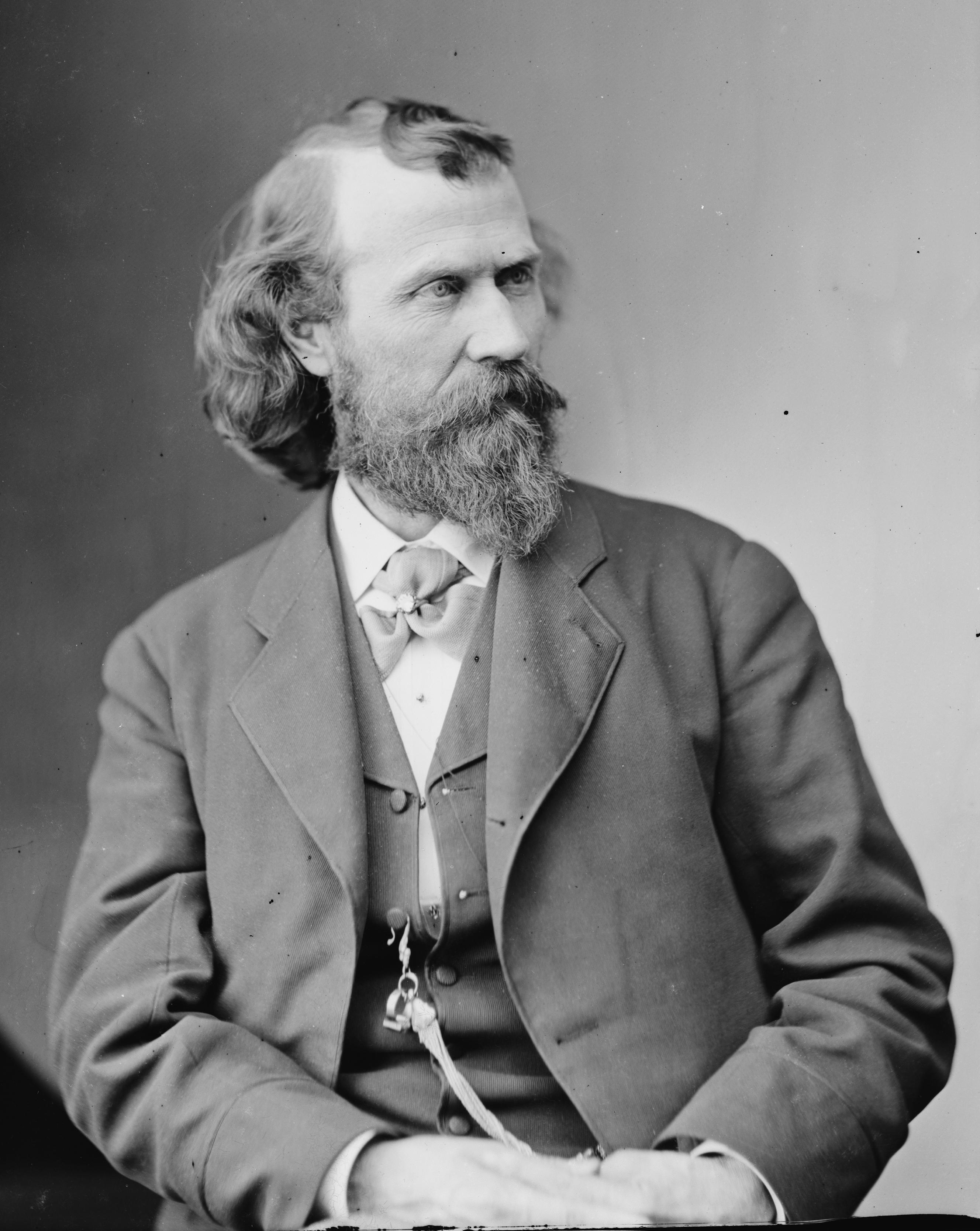 Joaquin Miller (September 8, 1837, or November 10, 1841 - February 17, 1913) was the pen name of the colorful American poet, essayist and fabulist Cincinnatus Heine (or Hiner) Miller. Born in Indiana, he moved to Oregon and later to California where he had a variety of occupations, including mining-camp cook (who came down with scurvy from only eating what he cooked), lawyer and a judge, a newspaper writer and a Pony Express rider.